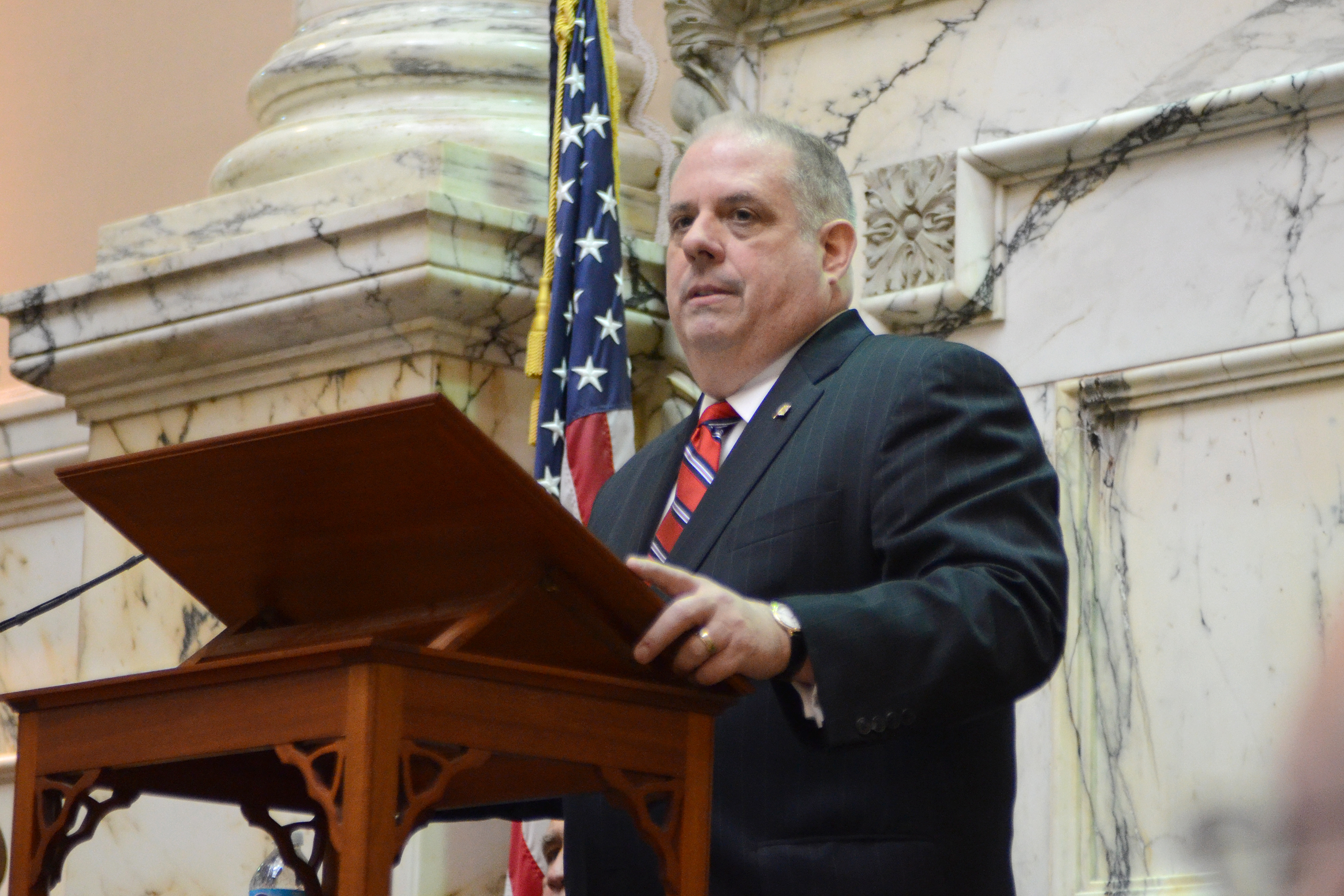 The State Of The State by Staff at House Chambers. 100 State Circle, Annapolis Maryland 21401